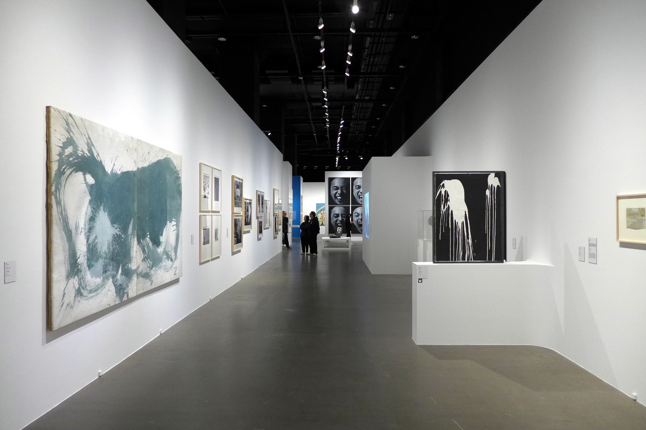 M+ Sigg Collection Four Decades of Chinese Contemporary Art